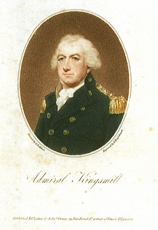 Sir Robert Kingsmill, Bart. Admiral of the Blue Squadron.